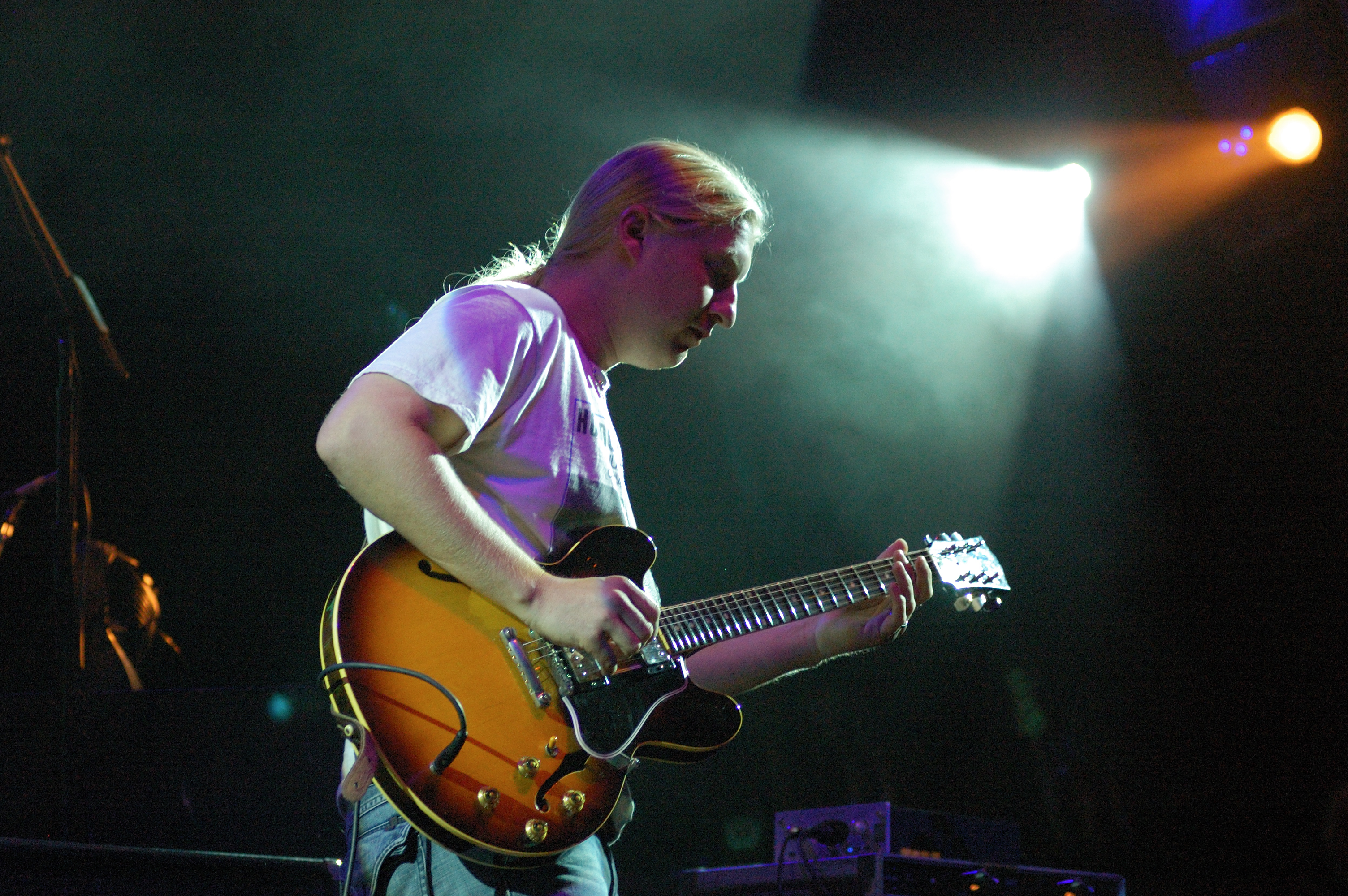 Allman Brothers at the Hard Rock Oct 20th, 2009 Derek Trucks